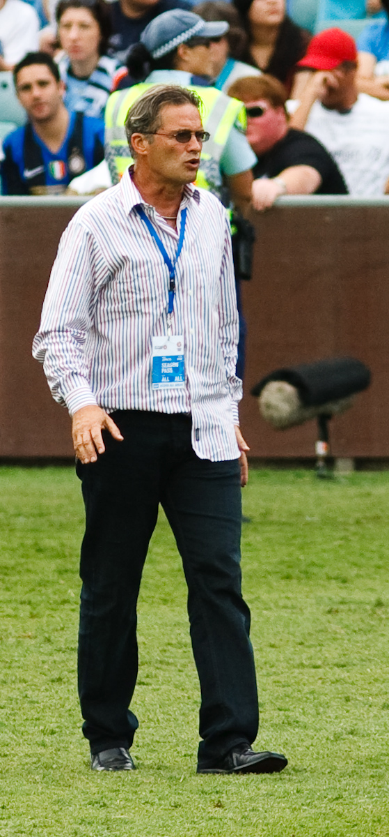 Miron Bleiberg at half time in a match vs Sydney FC at the Sydney Football Stadium.